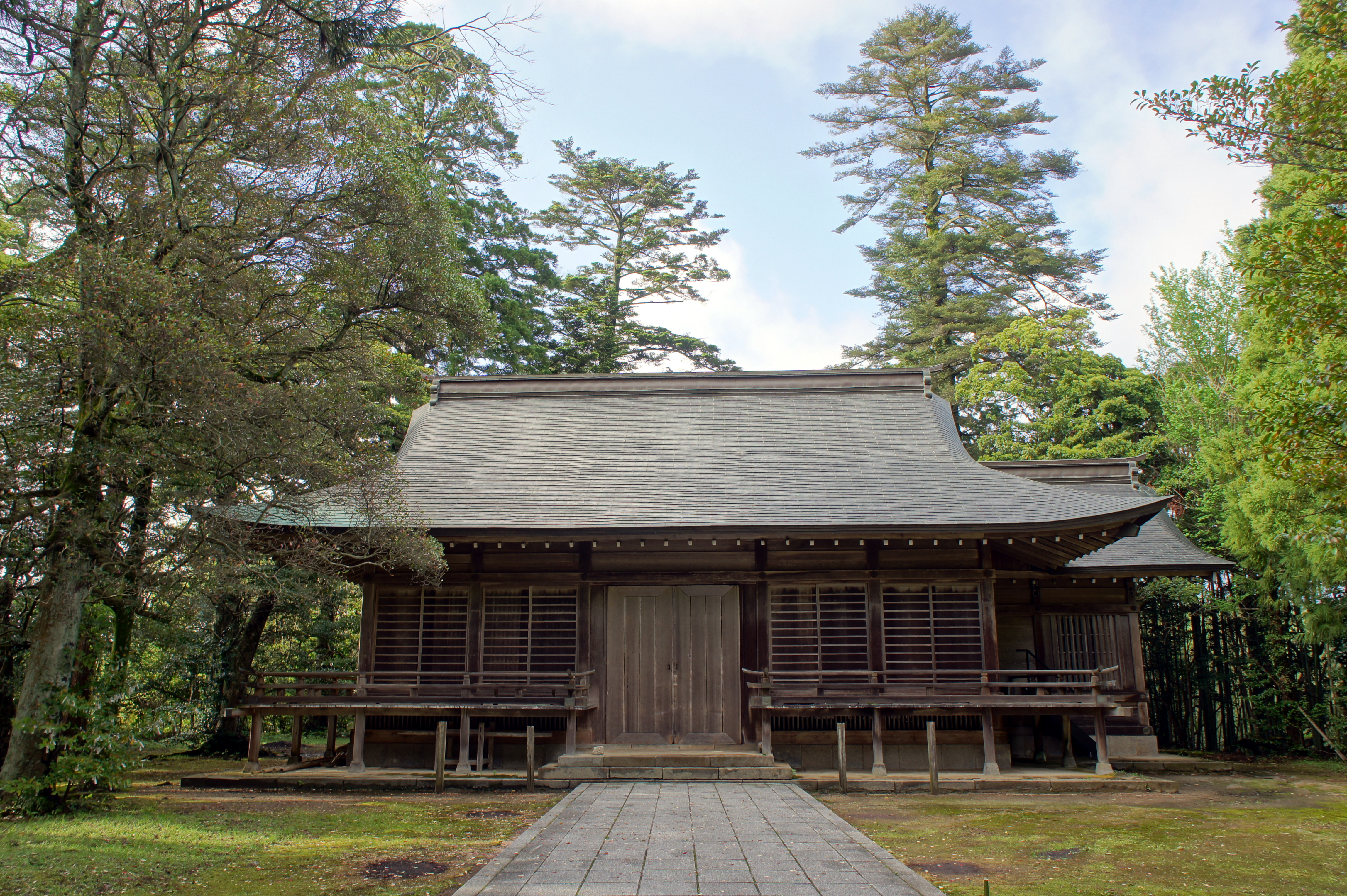 Shitori-jinja Haiden (Yurihama, Tottori Prefecture, Japan)